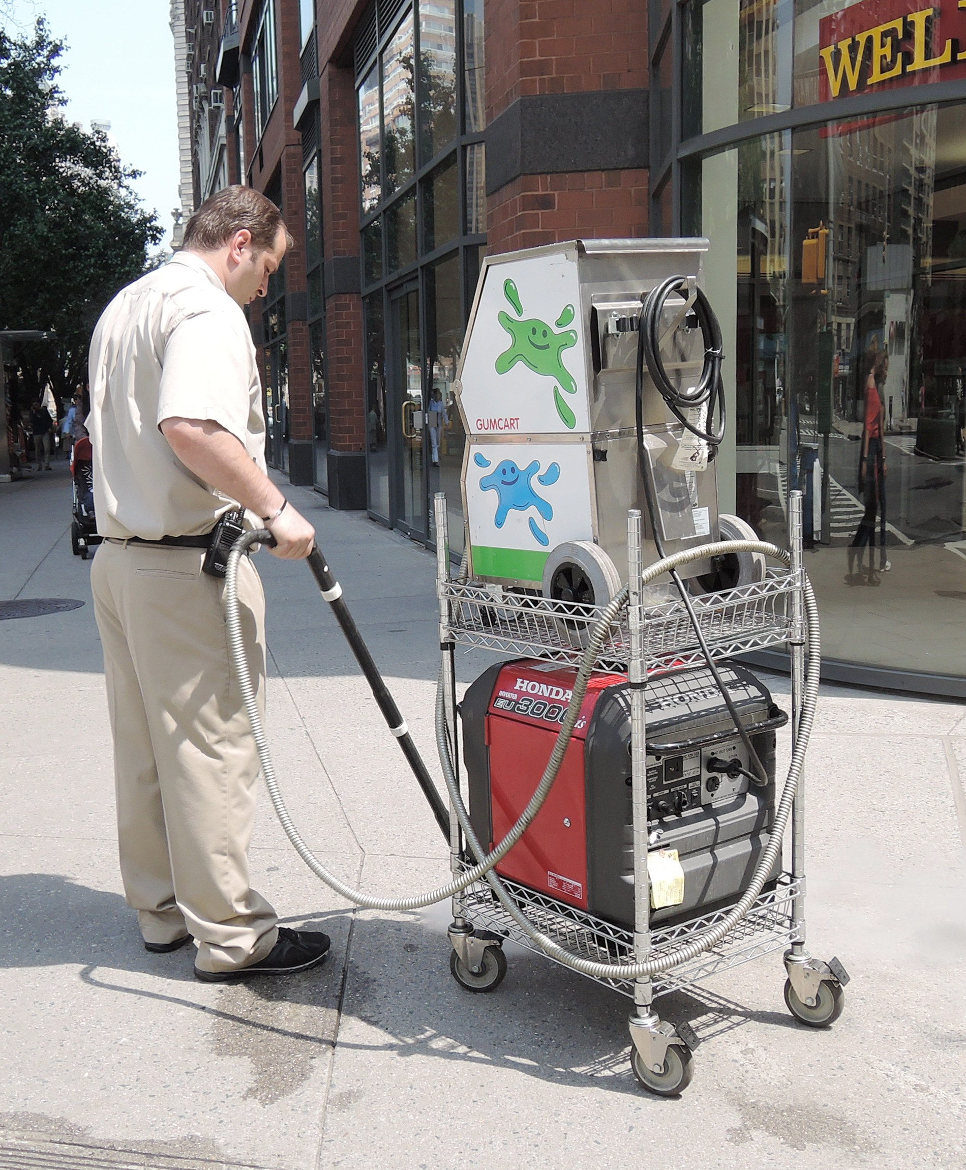 Cleaning gum from the sidewalk in front of a bank.